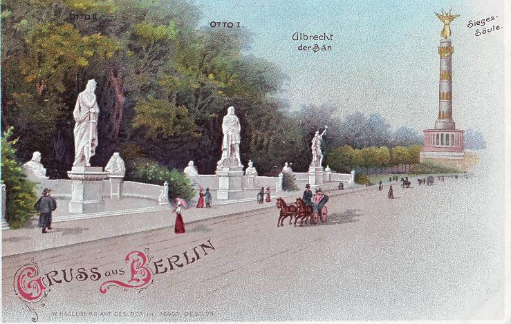 Former Siegesallee in Berlin with three monument groups and the Victory Column. On the left the group commemorating to Otto II (c. 1147-1205), third margrave of Brandenburg, grandson of Albert the Bear (group on the right) and son of Otto I (middle group). Ad rem the group Albrecht II: The bust on the left commemorates to the knight „Johann Gans zu Putlitz“, the bust on the right to the chronicler and capitular „Heinrich von Antwerpen“ (also: Heinrici de Antwerpe) Inaugurated 1898, created by the sculptor Joseph Uphues. At the present stored in the Lapidarium in Berlin-Kreuzberg.